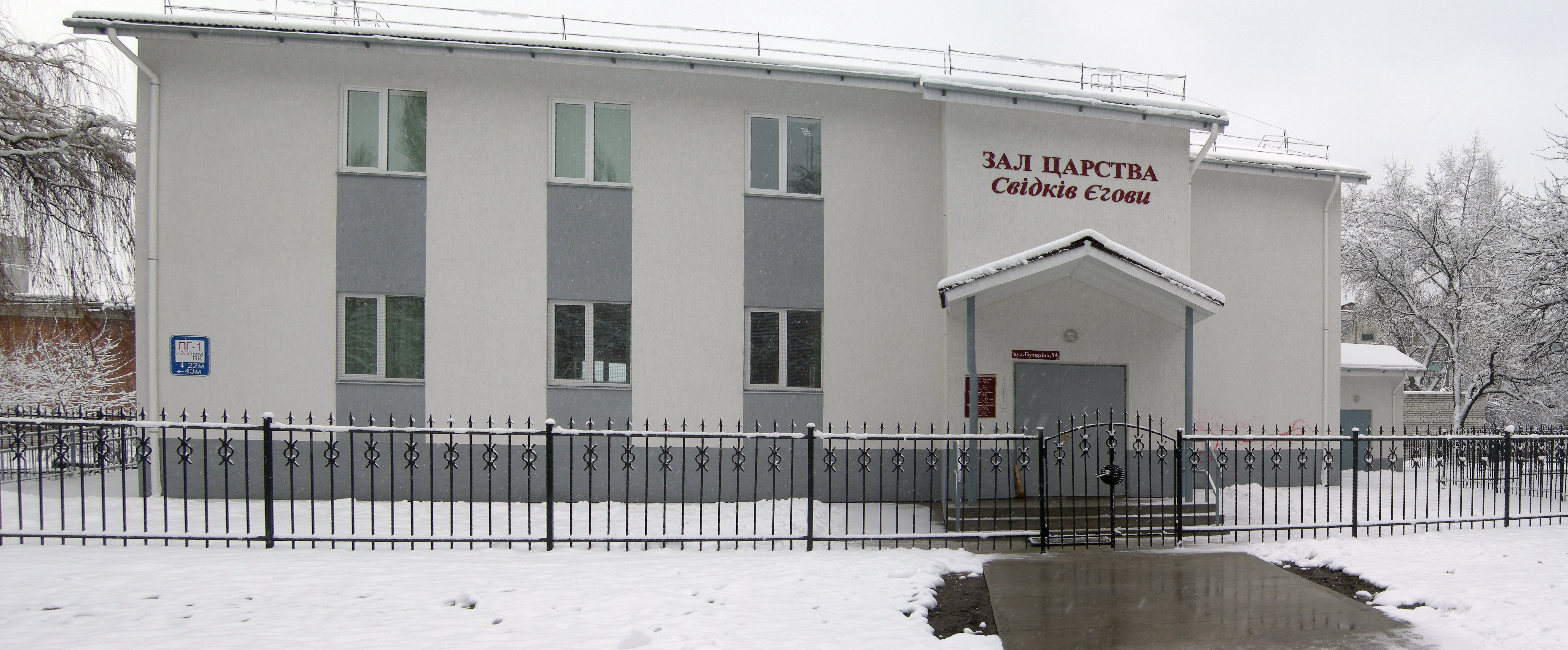 The Kingdom hall of Jehovah's Witnesses on Butyrina Street in Kremenchuk